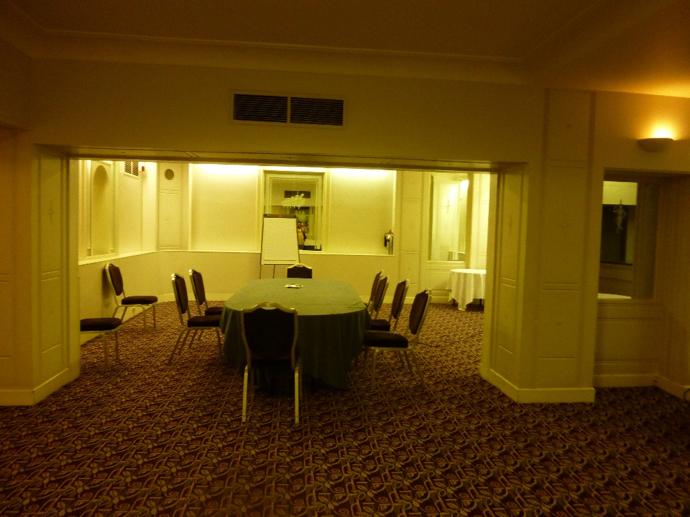 Mirror Room at the Park Lane Hotel in London. This is the venue of the first half of the World Chess Championship 1986. The photo was made at my request, and I possess the rights on it. Permission for publication was orally given by the Chief of Duty of the Park Lane Hotel.